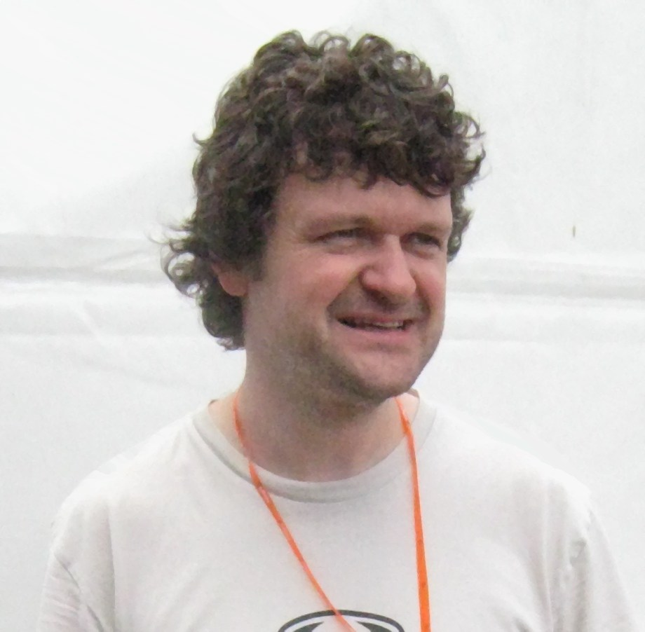 James Lynch, Touch and Go